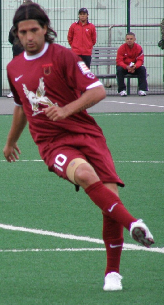 Alejandro Damián Domínguez in action for FC Rubin